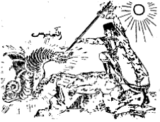 Mustafa Osman caricature criticizing French naturalization law of December 20, 1923